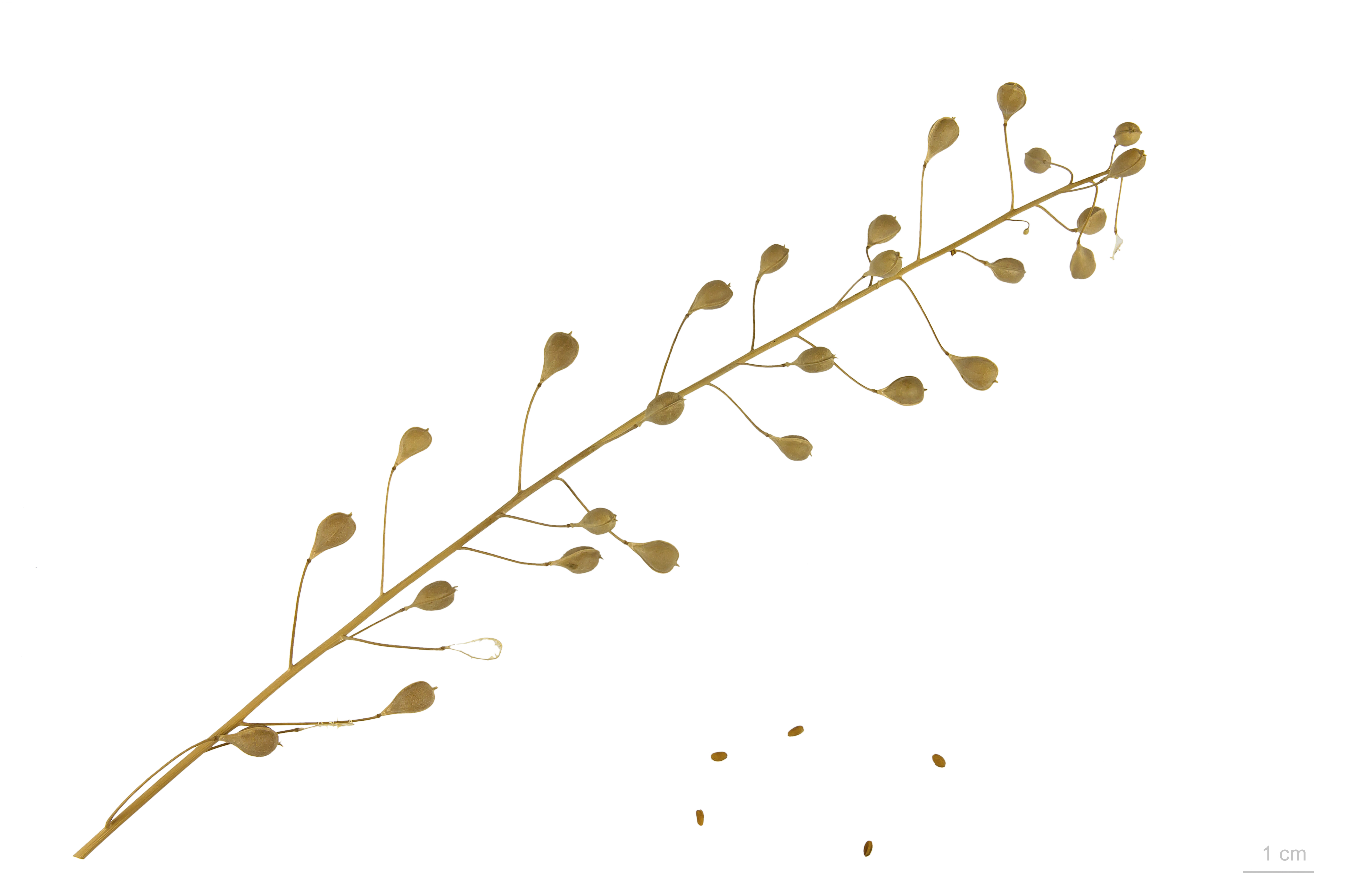 Camelina sativa, Leindotter, seeds